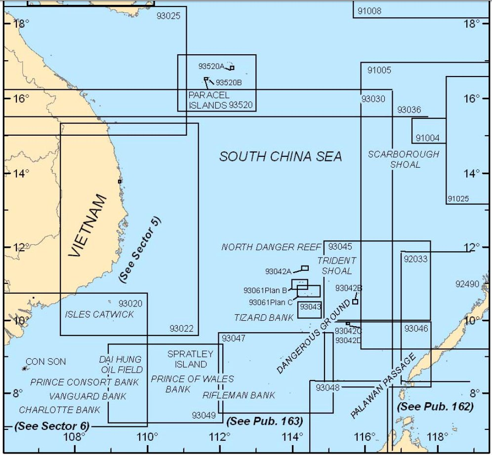 Map of the South China Sea region showing the NGA Charts covering the areas addressed by NGA Pub. 161, Sailing Directions (Enroute) South China Sea and the Gulf of Thailand, Fifteenth Edition, 2014